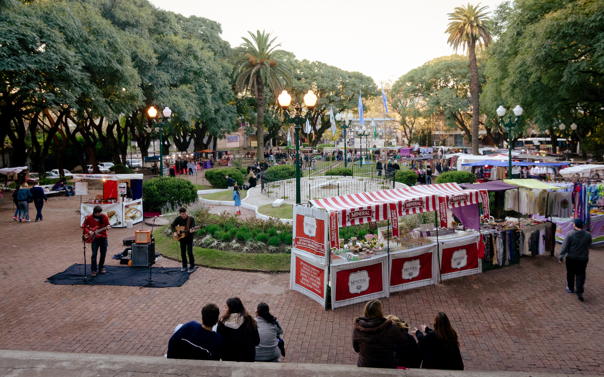 Weekly fair on Mitre Square. San Isidro, Buenos Aires Province, Argentina.